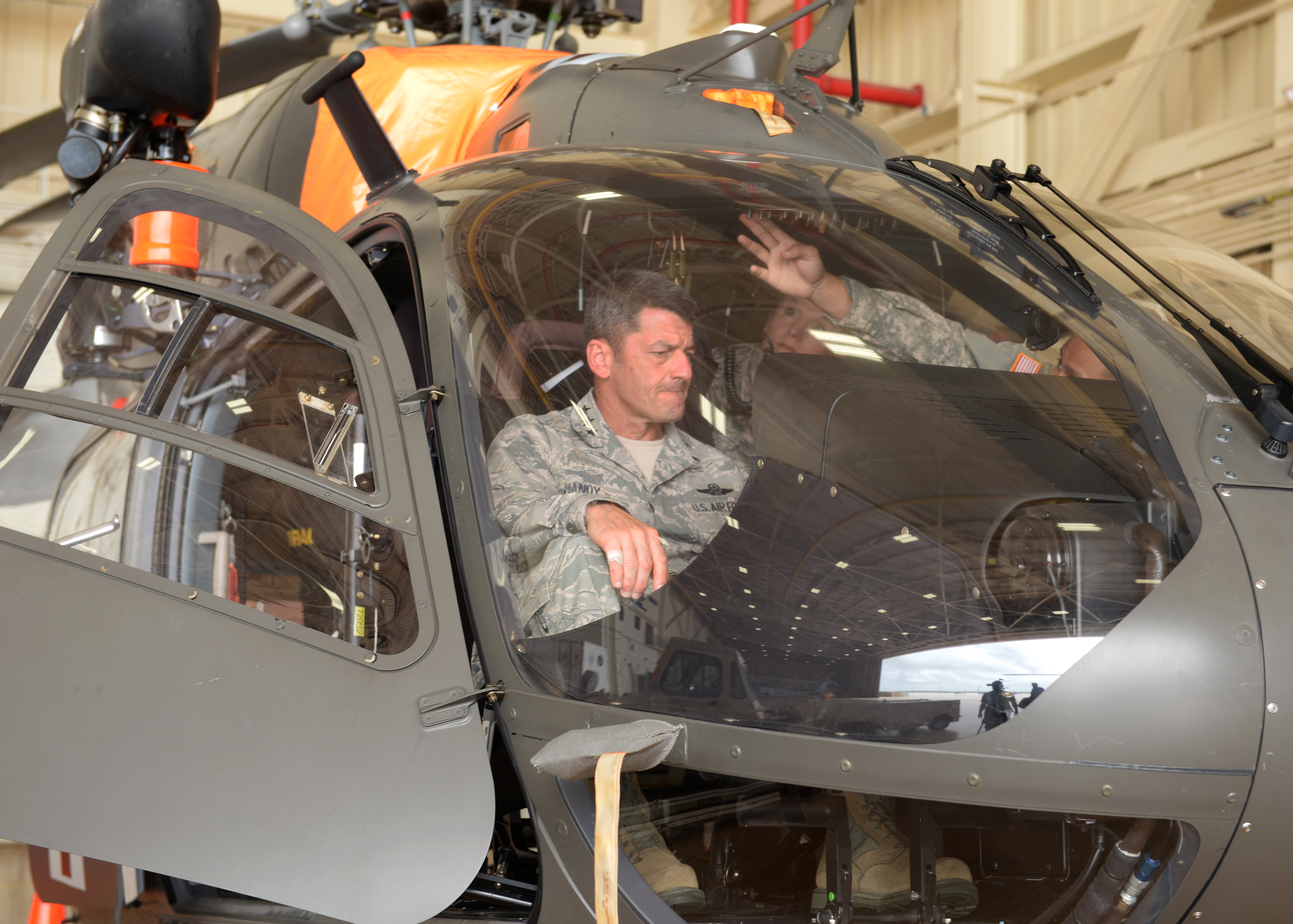 Lt. Gen. Russell Handy, 11th Air Force commander, sits in an Army National Guard Lakota helicopter while on a tour at Helicopter Sea Combat Squadron 25 Nov. 23, 2015, at Andersen Air Force Base, Guam. Handy visited Guam to interact with Airmen and leaders from Andersen AFB, Naval Base Guam, and Joint Region Marianas.